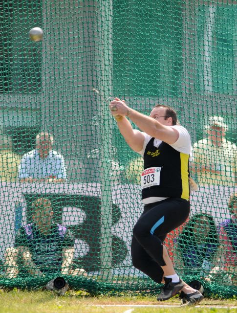 Ronald Gram during Dutch Championships 2008